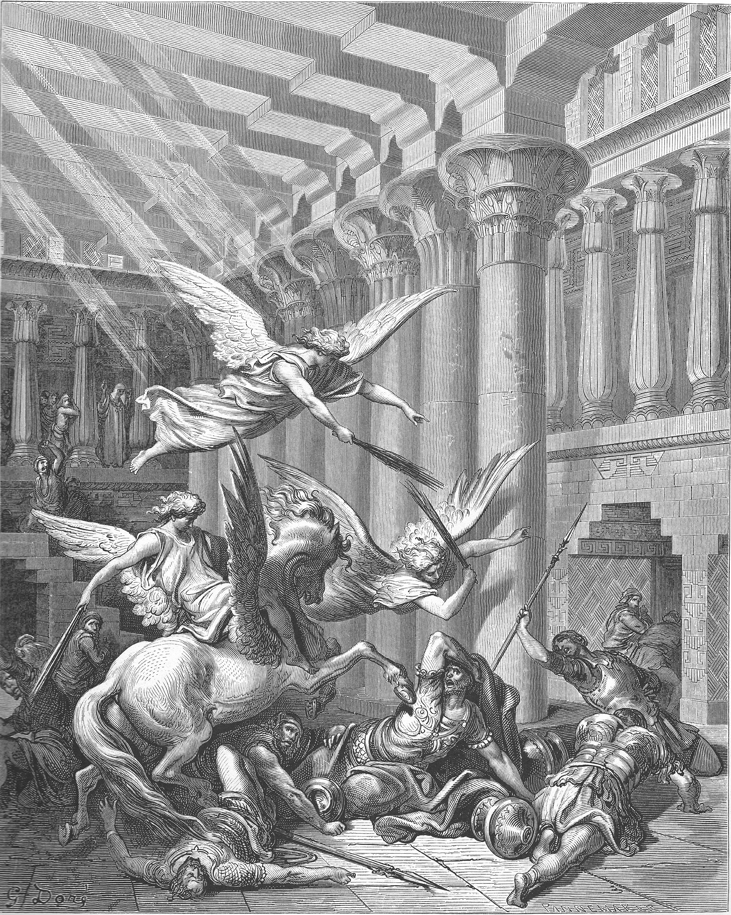 Heliodorus Is Cast Down (2 Macc. 3:23-40)